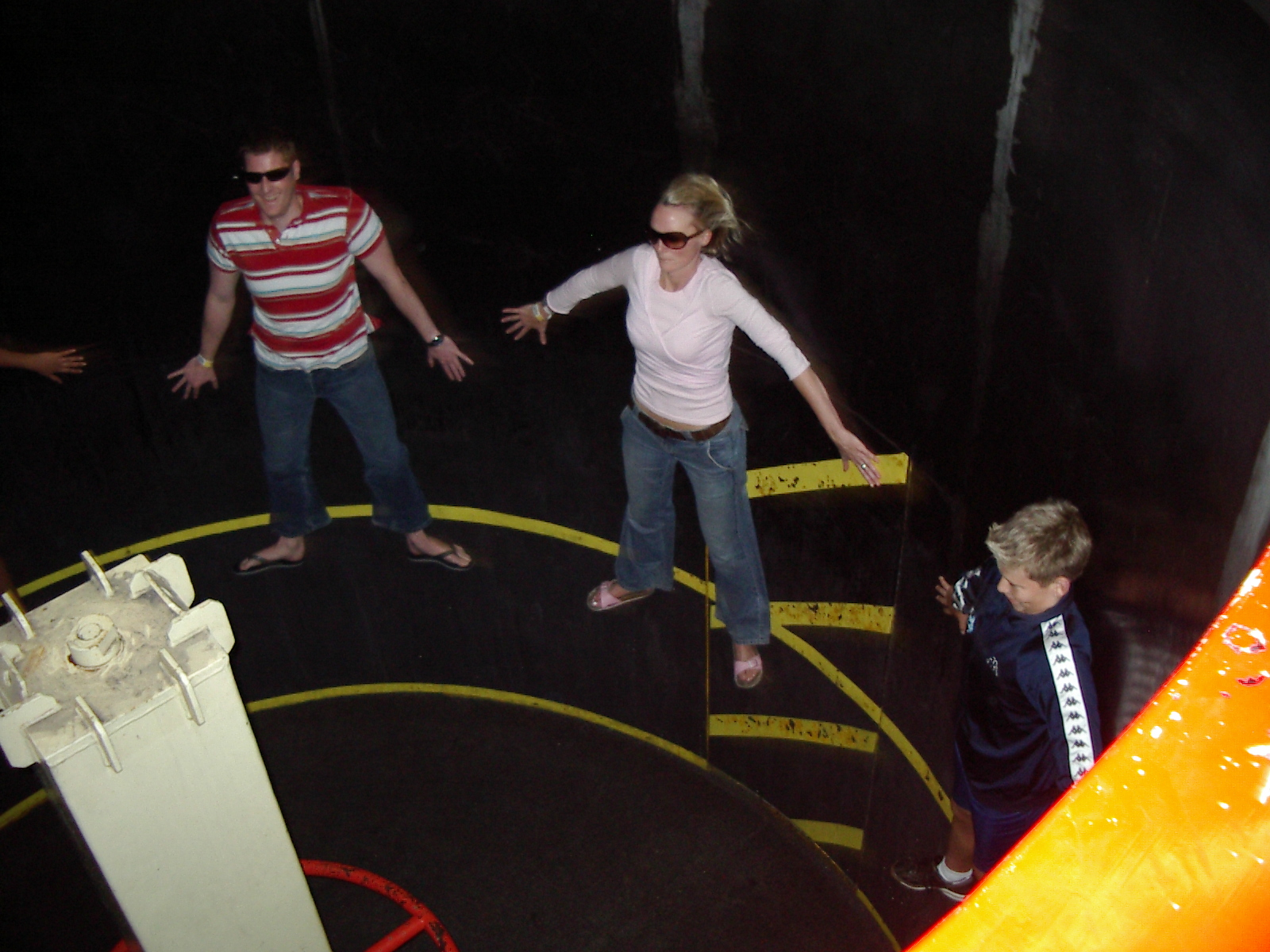 Photograph displaying the interior of a modified Rotor amusement ride at Luna Park Sydney.